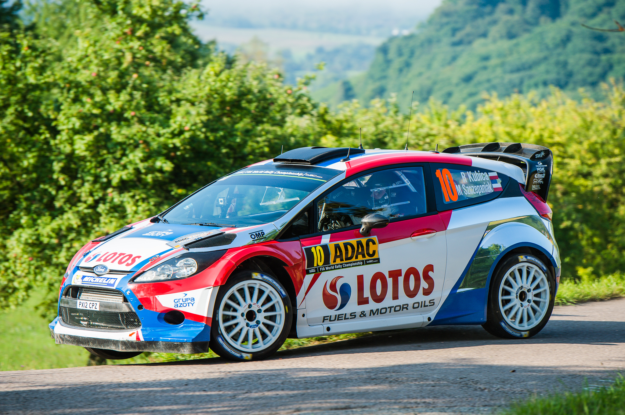 ADAC Rallye Deutschland 2014,FIA,FIA World Rally Championship,Ford Fiesta RS WRC,Maciej Szczepaniak,Motorsport,RK M-Sport WRT,RK M-sport World Rally Team,Rally,Rallye,Robert Kubica,Shakedown,WRC